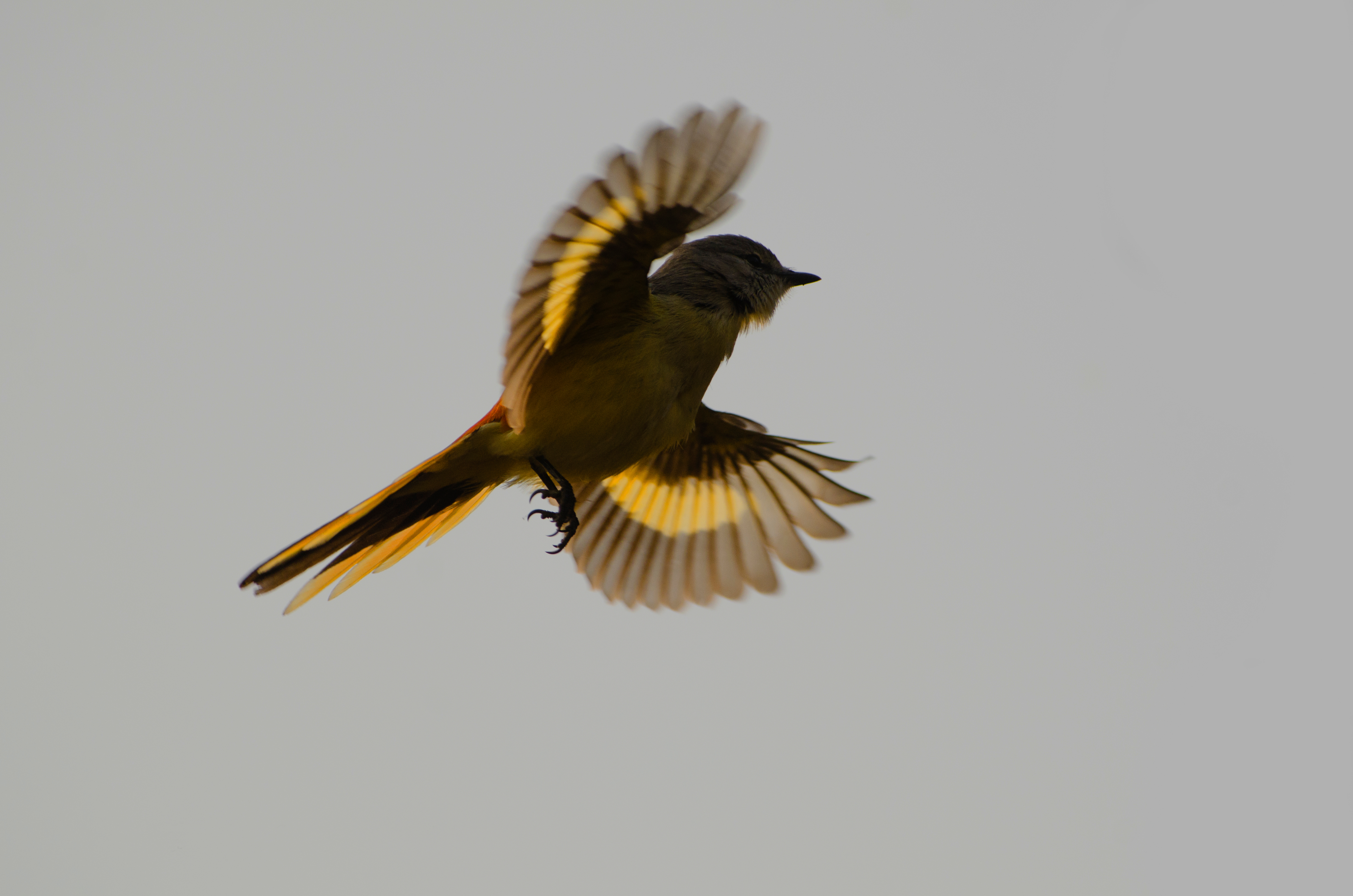 Small Minivet Pericrocotus cinnamomeus - Female in flight, clicked at Nagpur, Maharashtra, India